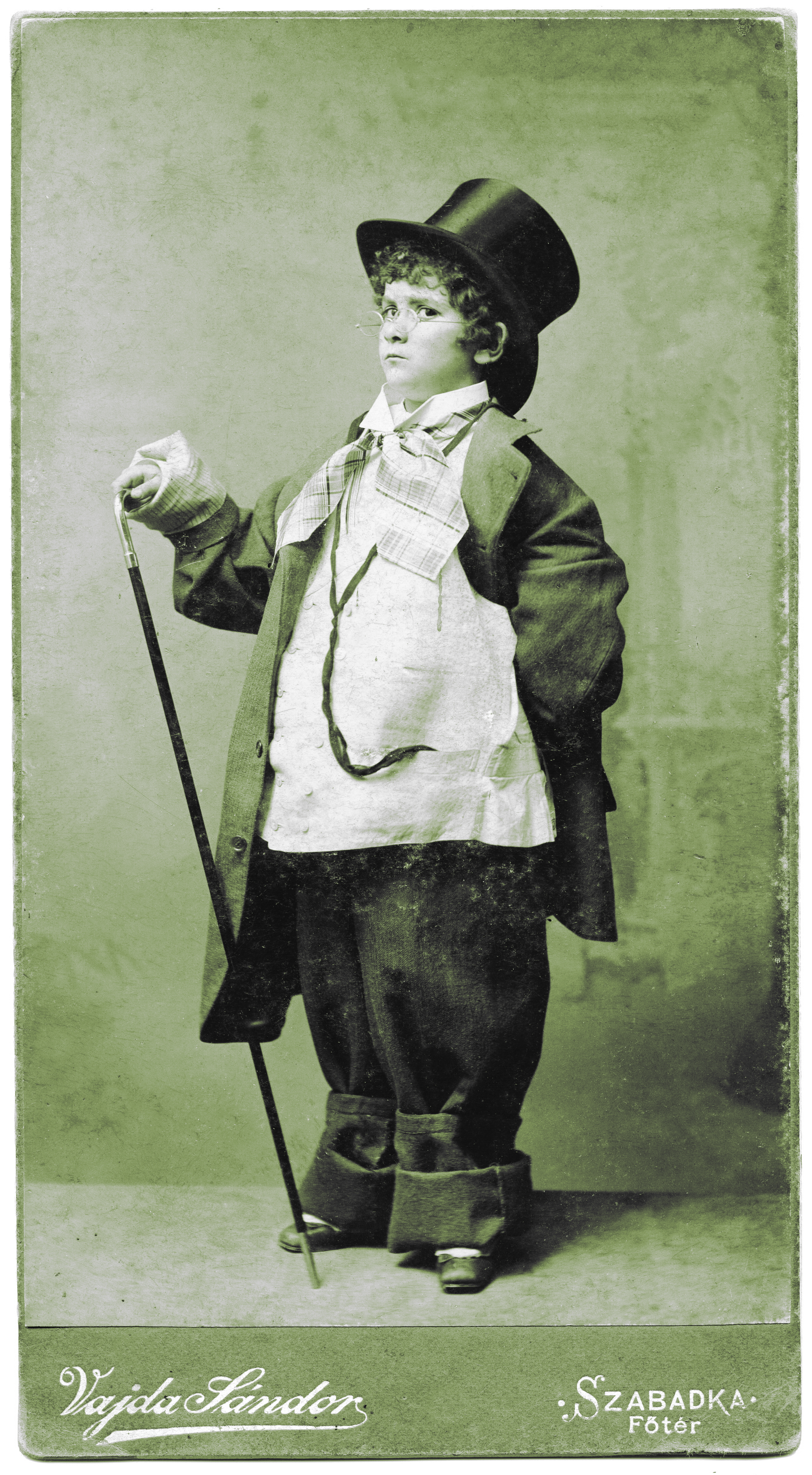 Dimitrije Marković (1896-1949), actor, operetta singer and director as Pera in act "Our Children" by Branislav Nušić, 1904 (Photo Studio by Šandor Vajda, Subotica) Srpski (latinica): Dimitrije Marković (1896-1949), glumac, operetski pevač i reditelj kao Pera u komadu "Naša deca" Branislava Nušića, 1904. (Atelje Šandora Vajde, Subotica) Српски (ћирилица): Димитрије Марковић (1896-1949), глумац, оперетски певач и редитељ као Пера у комаду "Наша деца" Бранислава Нушића, 1904. (Атеље Шандора Вајде,Суботица)